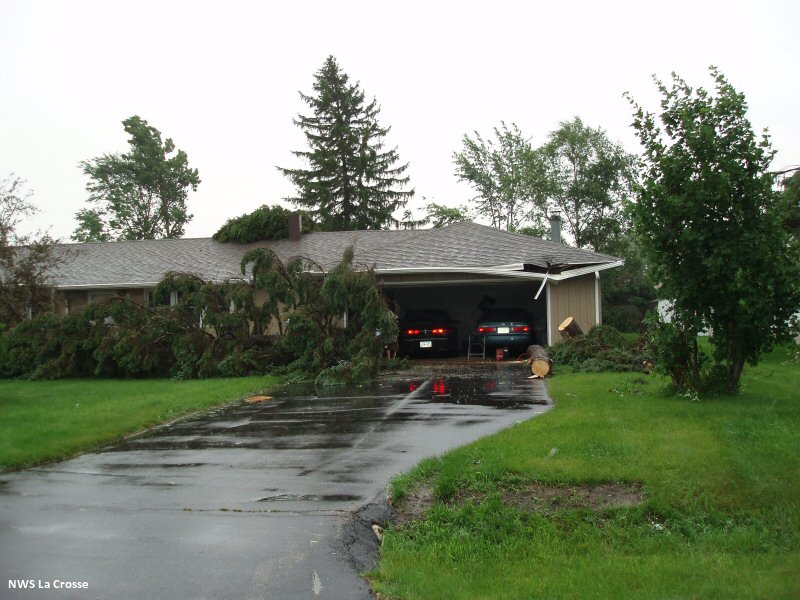 Tornado damage in Austin, Minnesota from June 17, 2009.